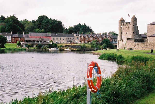 Enniskillen: castle and river The castle alongside the river Erne in Enniskillen.